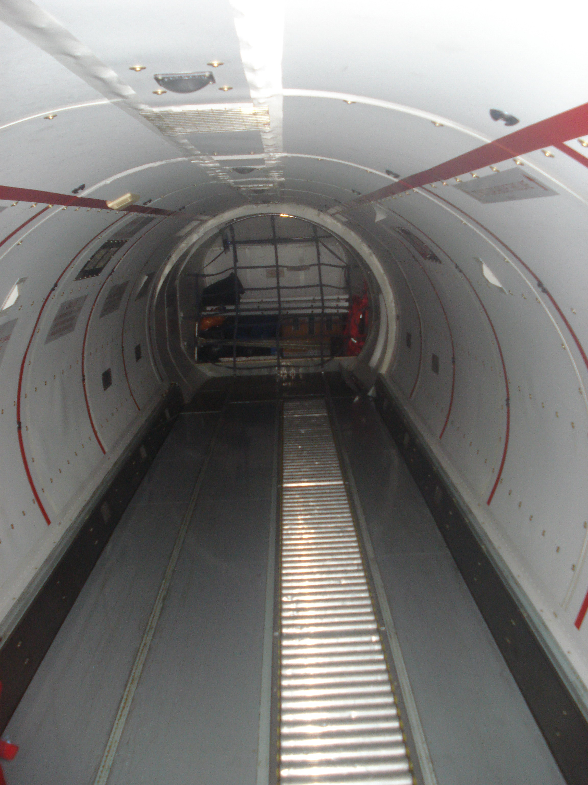 Saab340A Cargo Cabin